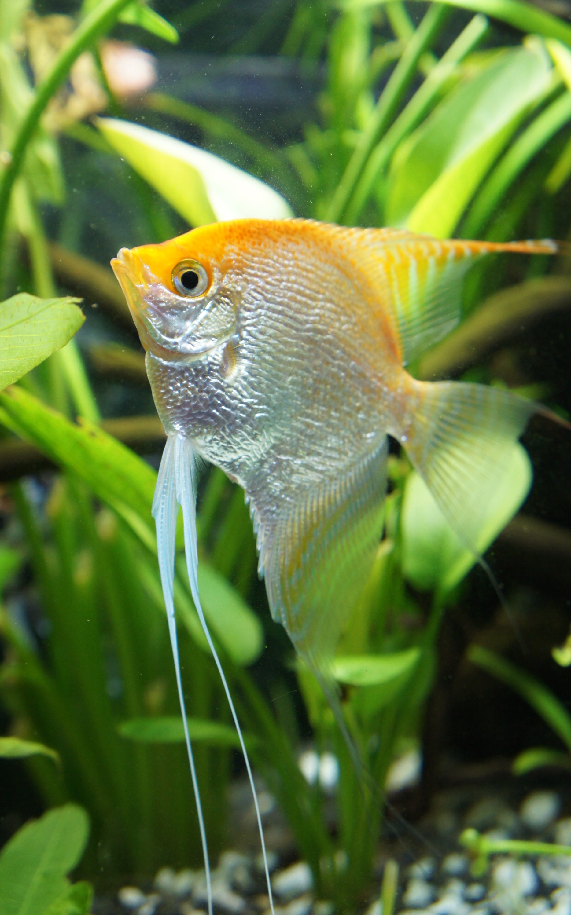 Pterophyllum scalare